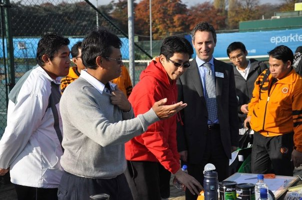 VIPs present at Nottingham Malaysian Games 2009